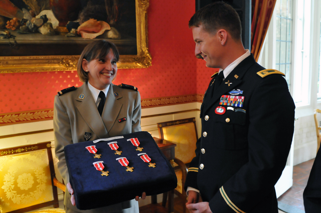 A French Embassy official holds a tray of the French Croix de la Valeur Militaire, roughly analagous to the Silver Star, before a private ceremony at the French Ambassador's Residence in Washington, D.C., on July 25, 2011, awarding the honor to five National Guard and one active duty Special Forces Soldiers. (U.S. Army photo by Staff Sgt. Jim Greenhill) (Released)